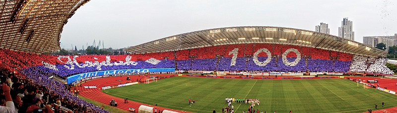 Hajduk - 100 years